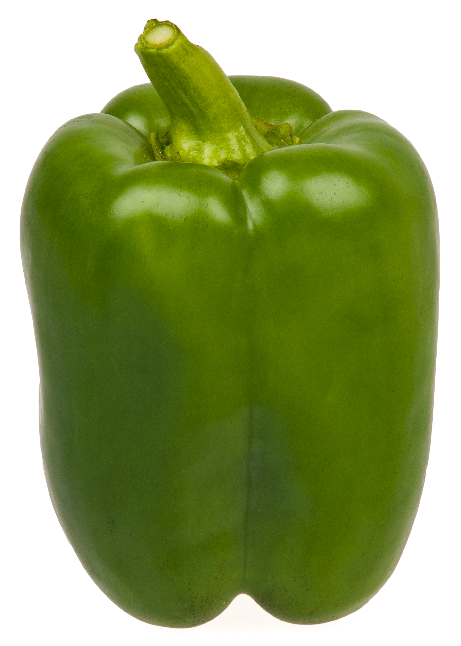 A green bell pepper, shown whole.